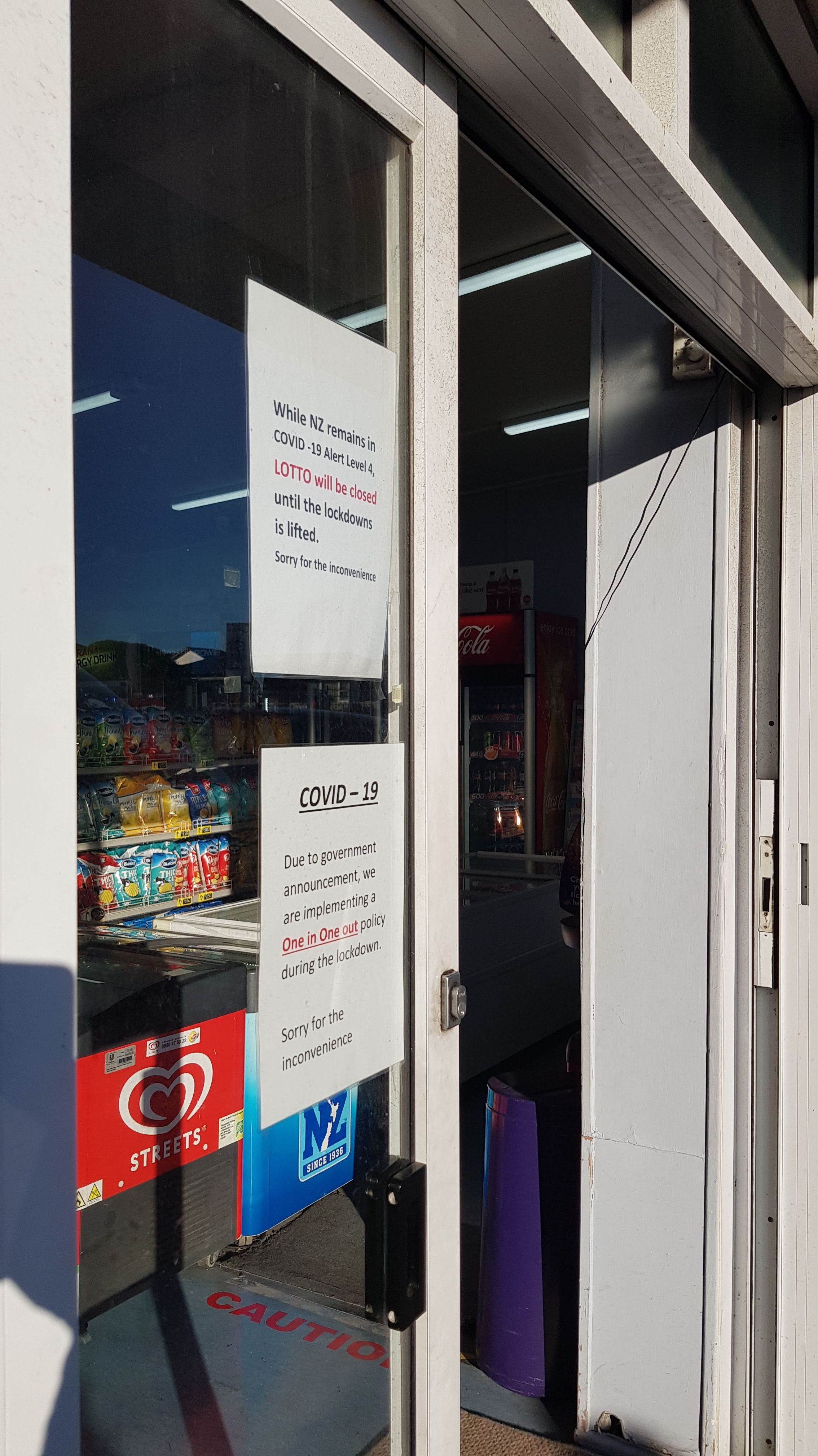 First sign says: "While NZ remains in COVID -19 Alert Level 4, LOTTO will be closed until the lockdowns is lifted. Sorry for the inconvenience." Second (lower) sign says: " COVID - 19 Due to government announcement, we are implementing a One in One out policy during the lockdown. Sorry for the inconvenience"